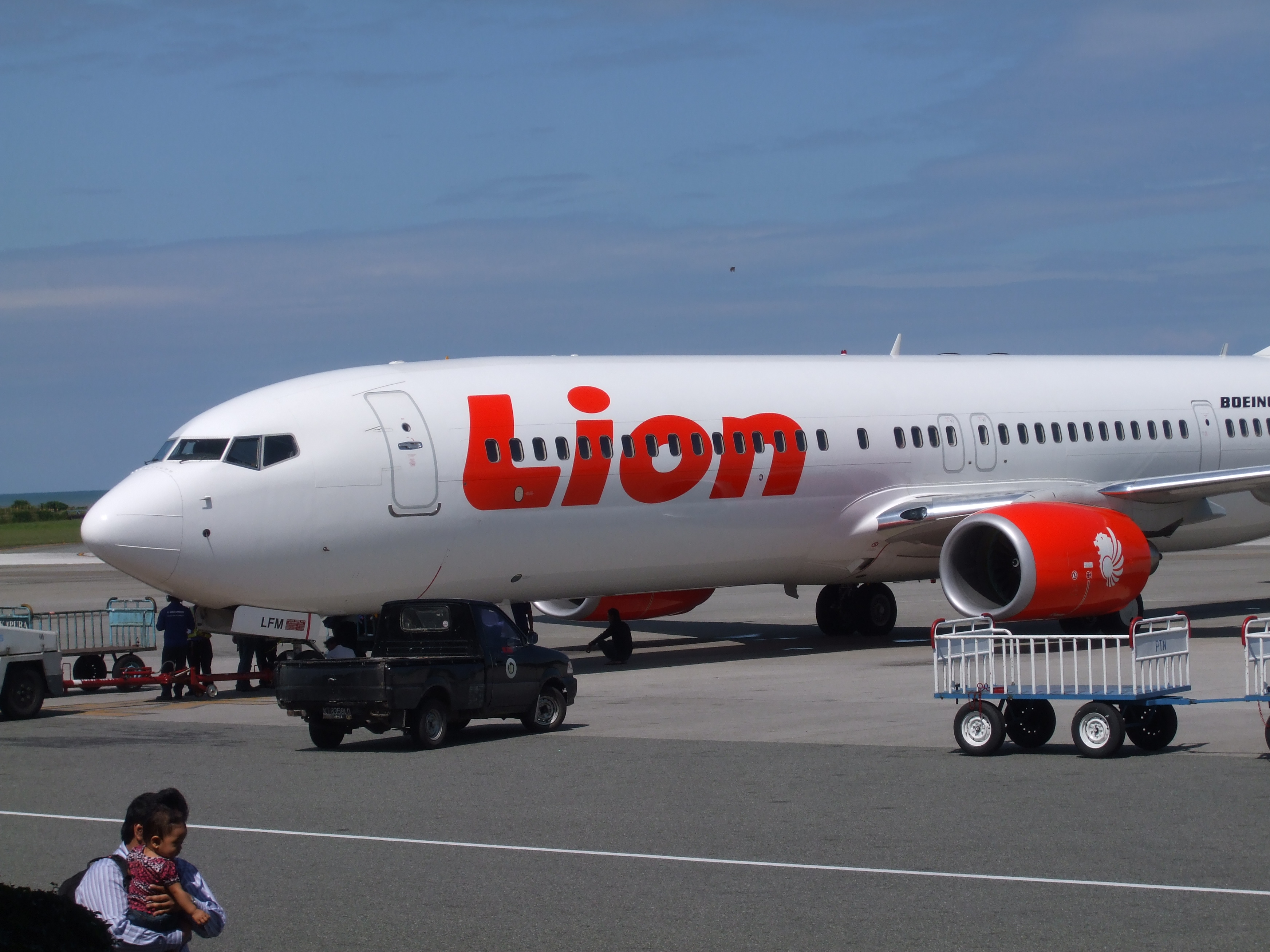 Boeing 900ER Lion Air at Sultan Aji Muhamad Sulaiman airport, Balikpapan, East Borneo Indonesia.